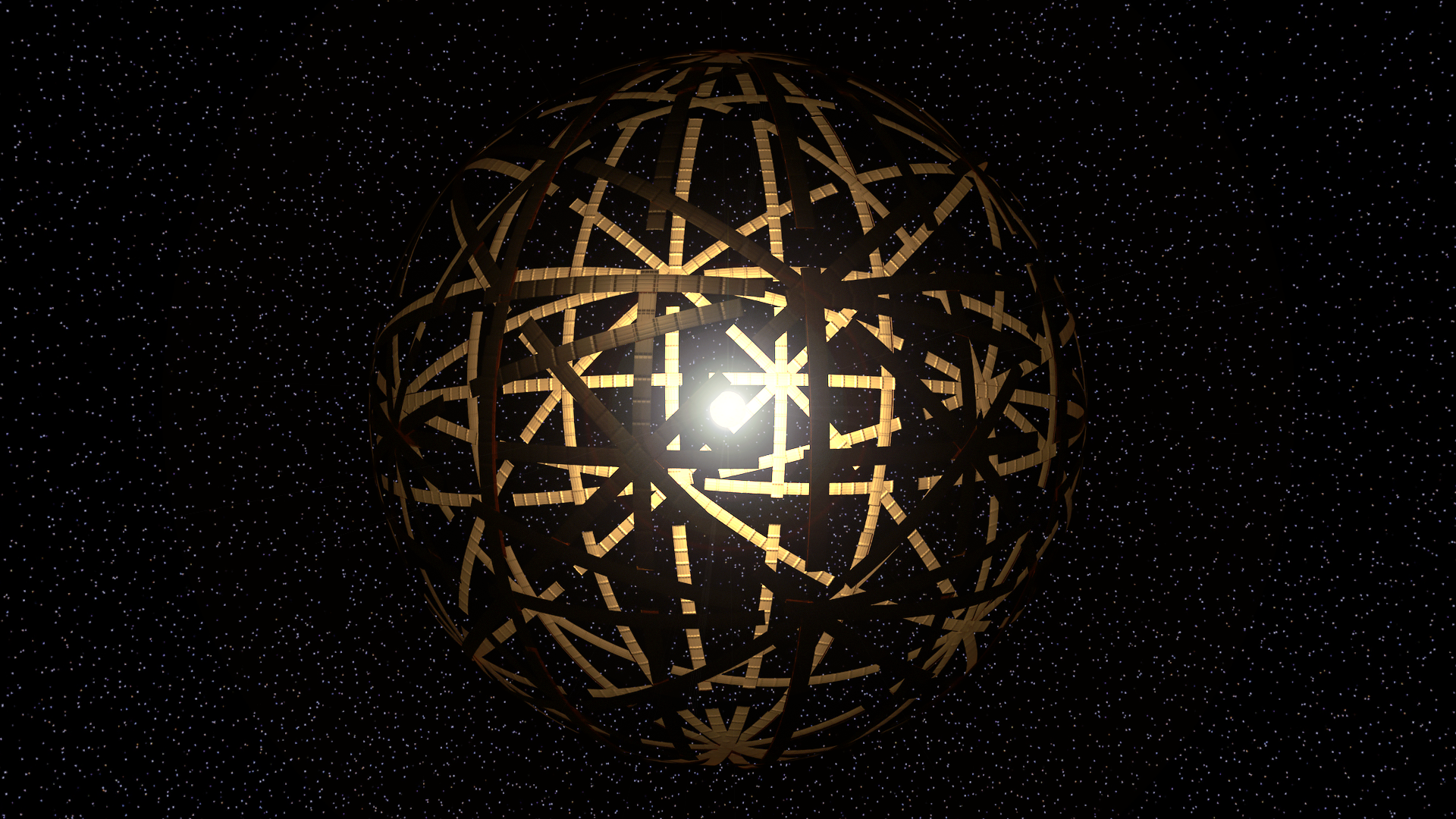 A Dyson Shell of massive independently orbiting arched panels. Rendered using Autodesk Maya and Adobe Photoshop.